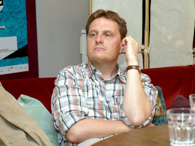 Jacek Gutorow, Polish poet